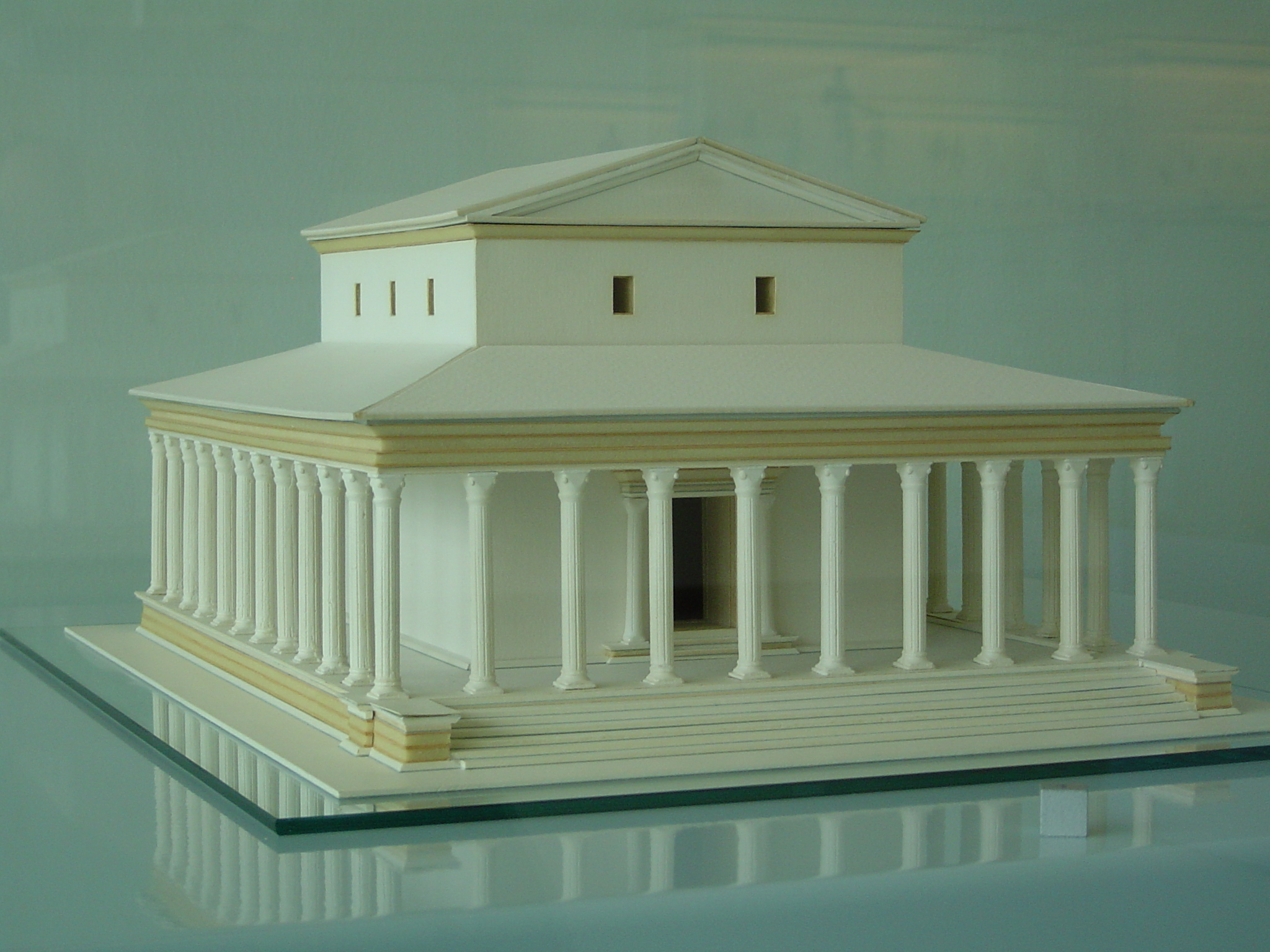 Roman tempel of Elst, Museum Het Valkhof Nijmegen, the Netherlands Museum Het Valkhof Native nameMuseum Het ValkhofLocationNijmegen Address Kelfkensbos 596511 TB NijmegenNetherlandsCoordinates51° 50′ 47″ N, 5° 52′ 16″ E Established1999Web page control : Q1127079 VIAF: 158715438 ISNI: 0000 0004 0533 6734 LCCN: no2002025807 GND: 5519052-2 SUDOC: 075891700 WorldCat institution QS:P195,Q1127079